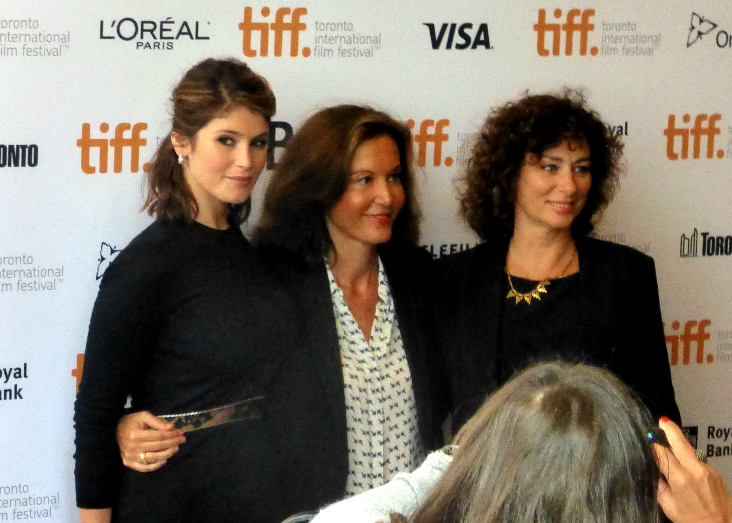 Gemma Arterton, director Anne Fontaine and actress Isabelle Candelier at the premiere of Gemma Bovary, 2014 Toronto Film Festival